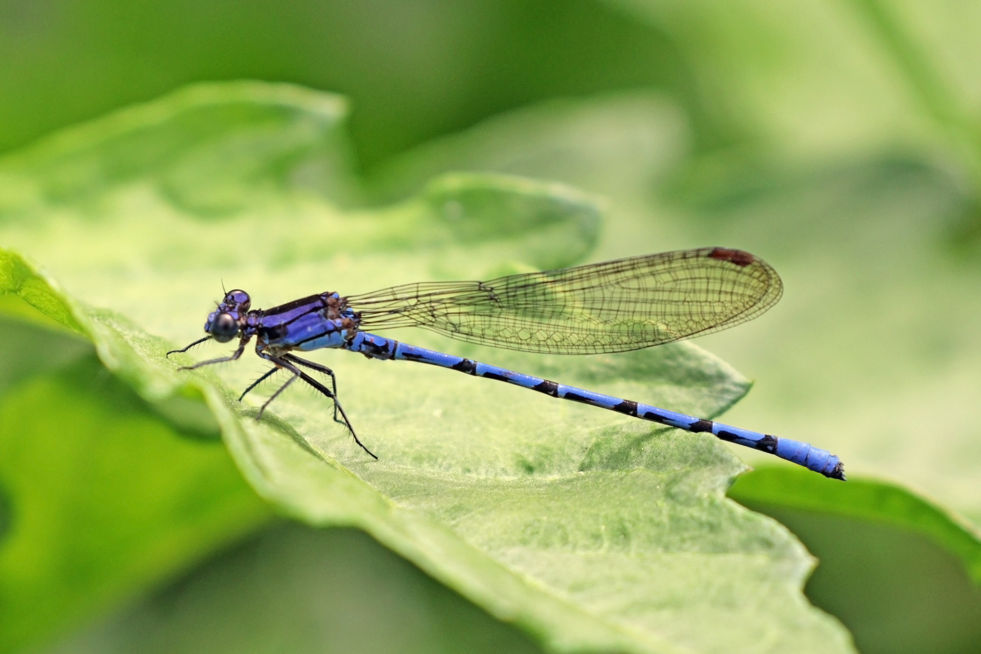 Azure dancer (Argia fissa) male, Mount Totumas cloud forest, Panama